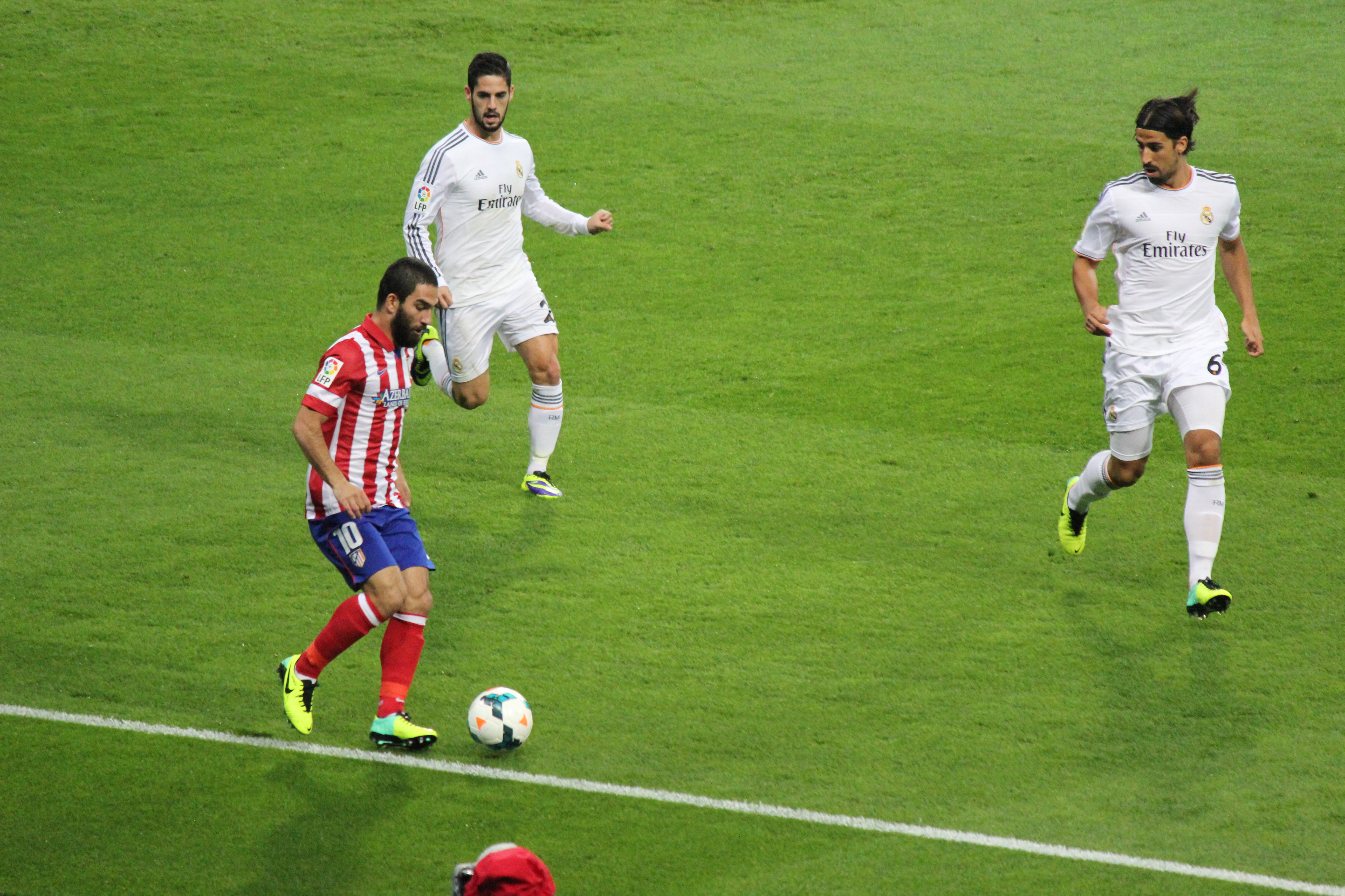 Real Madrid vs. Atlético Madrid 28 September 2013. Arda Turan for Atlético.